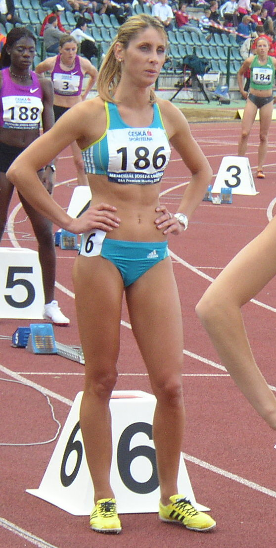 Athlete Angela Moroşanu of Romania before her start in women's 400 m hurdles race at 17th edition of the Josef Odložil Memorial (EAA Premium Meeting, Na Julisce Stadium, Prague, Czech Republic, 14 June 2010). Moroşanu ranked third in 55.65 s.